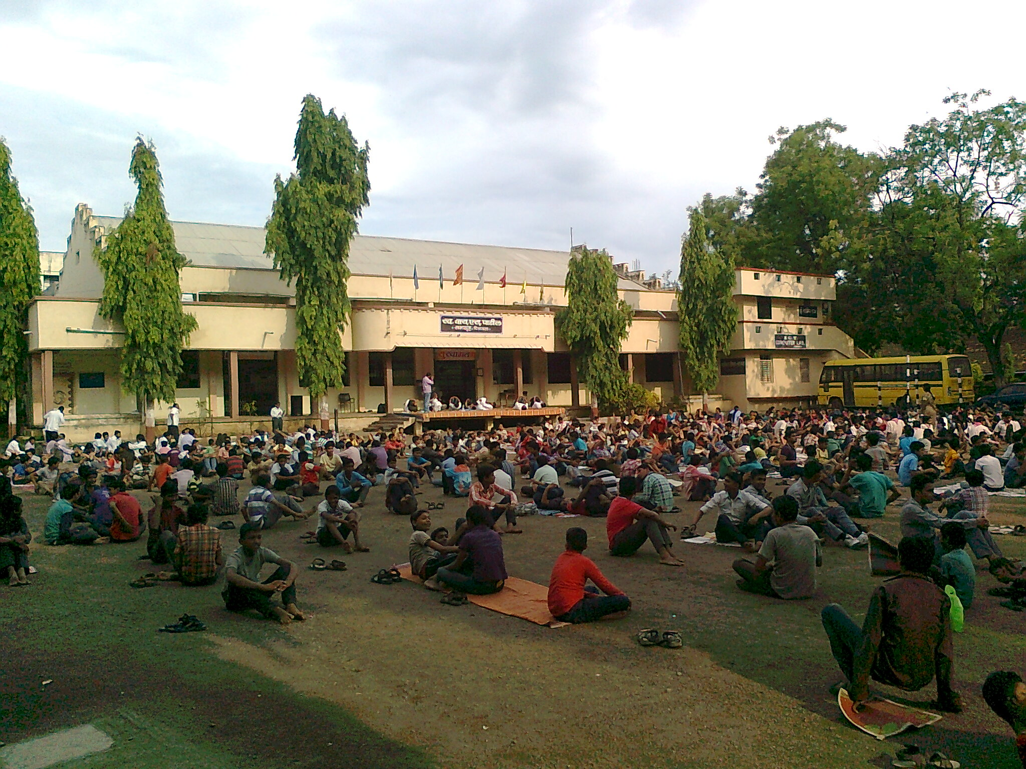 International Yoga Day observence in Nutan Madhyamik Vidyalaya at Chinawal village of Maharashtra, India